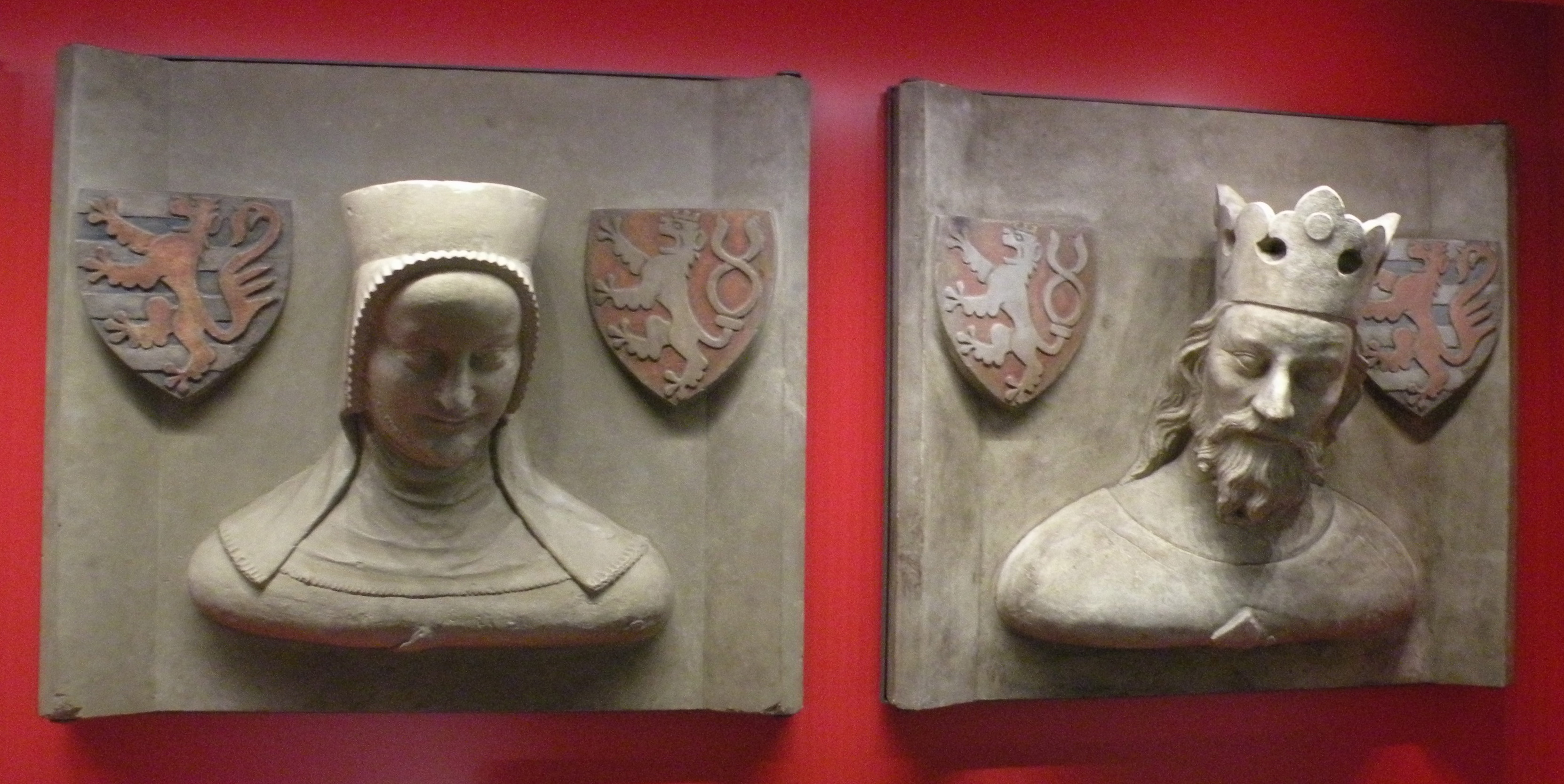 Collections of the Musée national d'histoire et d'art